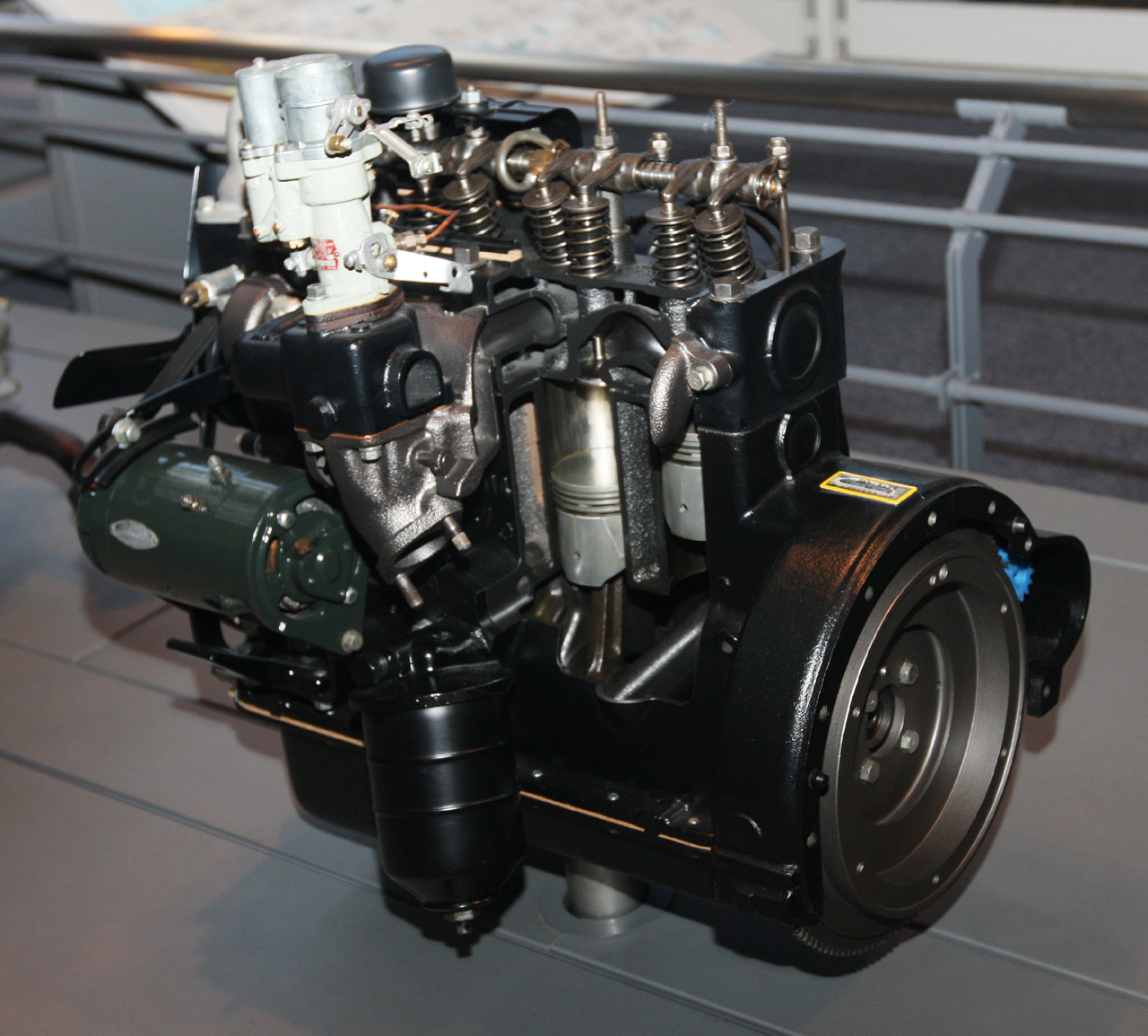 1953 Toyota R Type engine. L4 1,453cc.